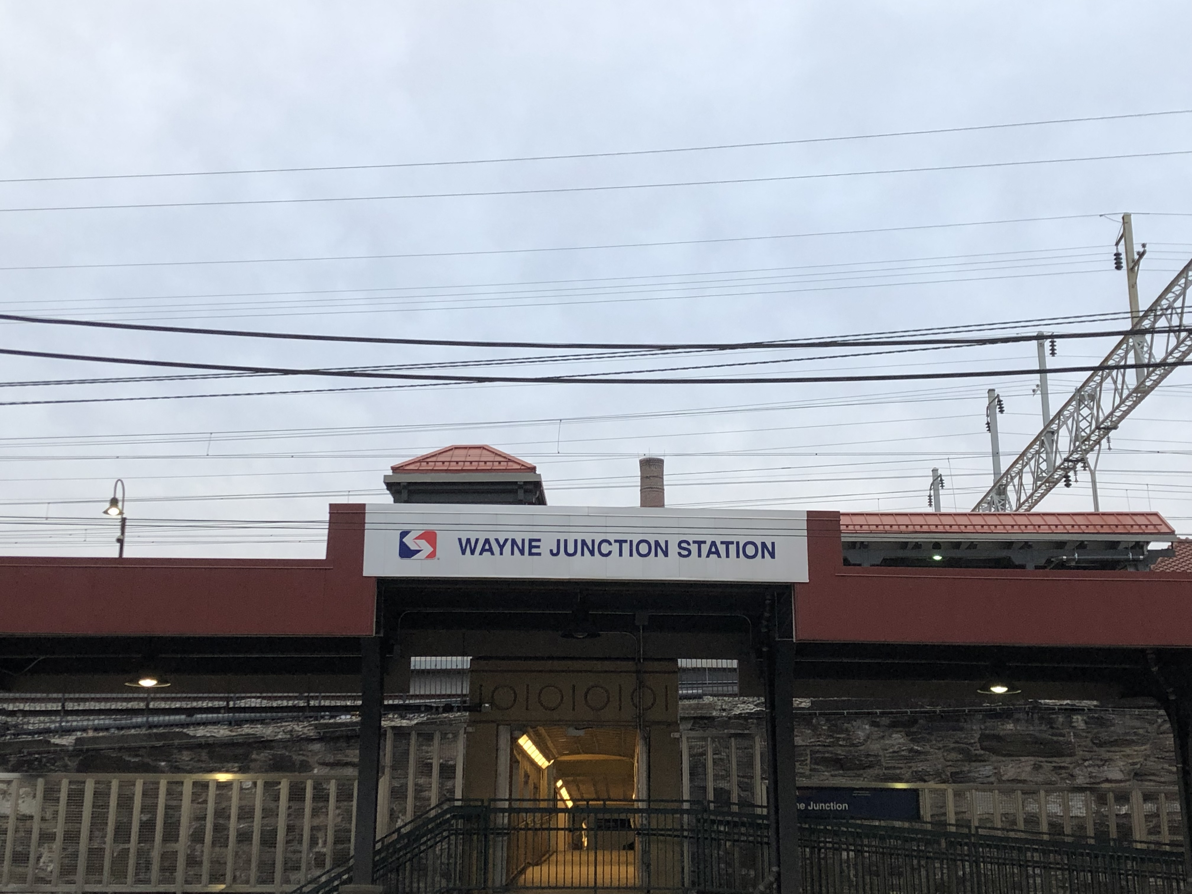 Wayne junction station